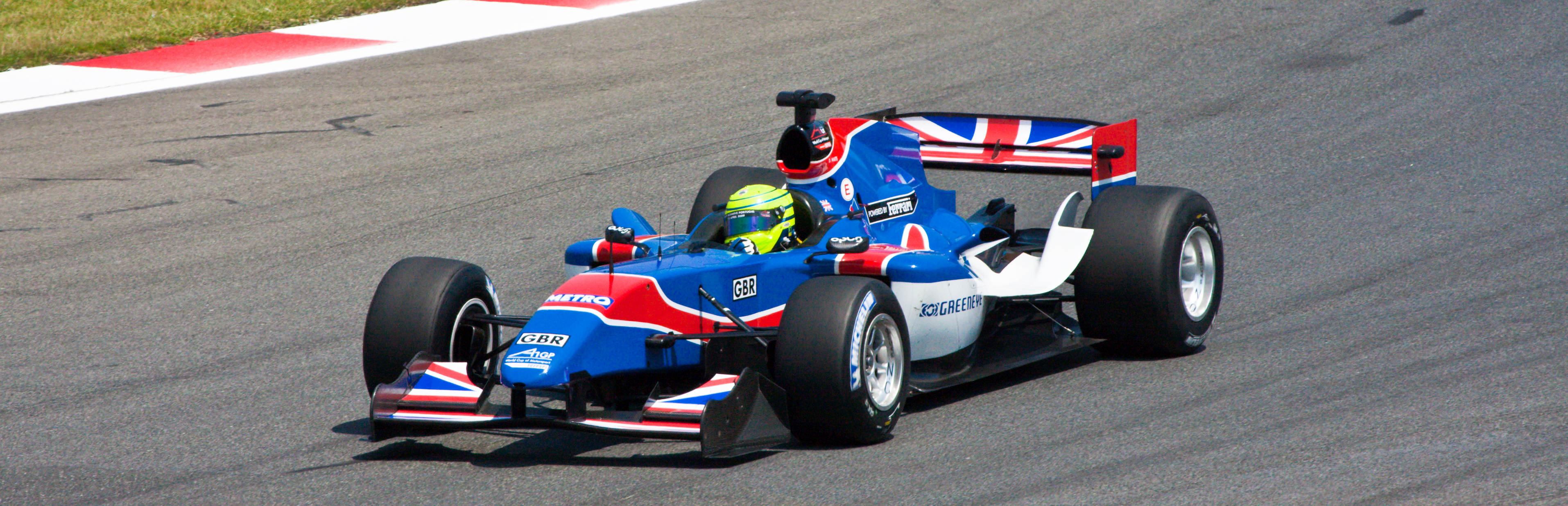 Team Great Britain @ A1 Grand Prix Kyalami South Africa 2009